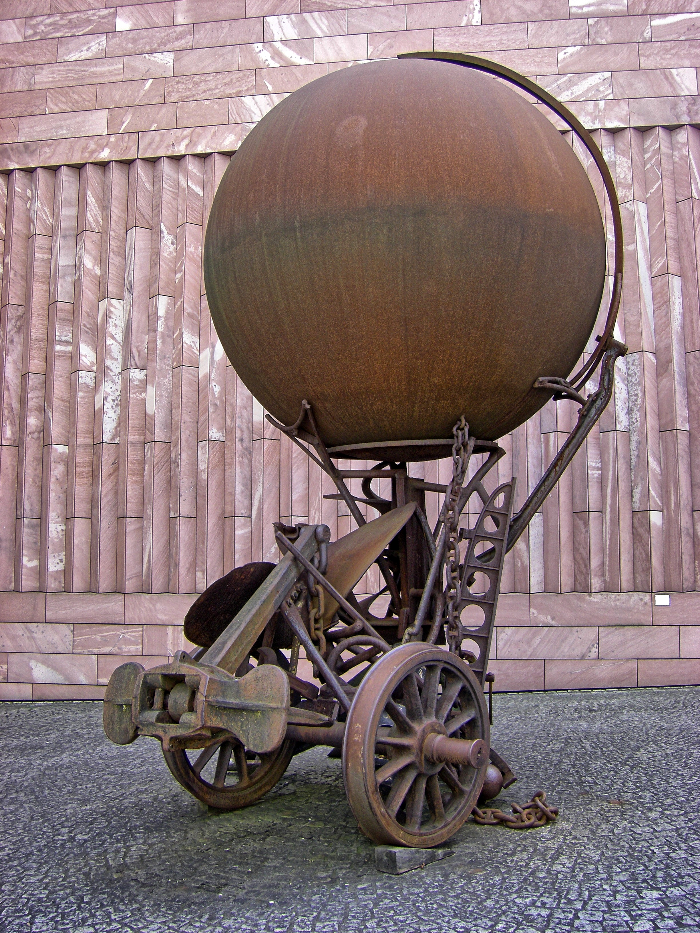 Sculpture Dickfigur Beteigeuze in front of the Tinguely-Museum Basel, Switzerland.